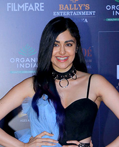 Adah Sharma at Filmfare Glamour and Style Awards 2019